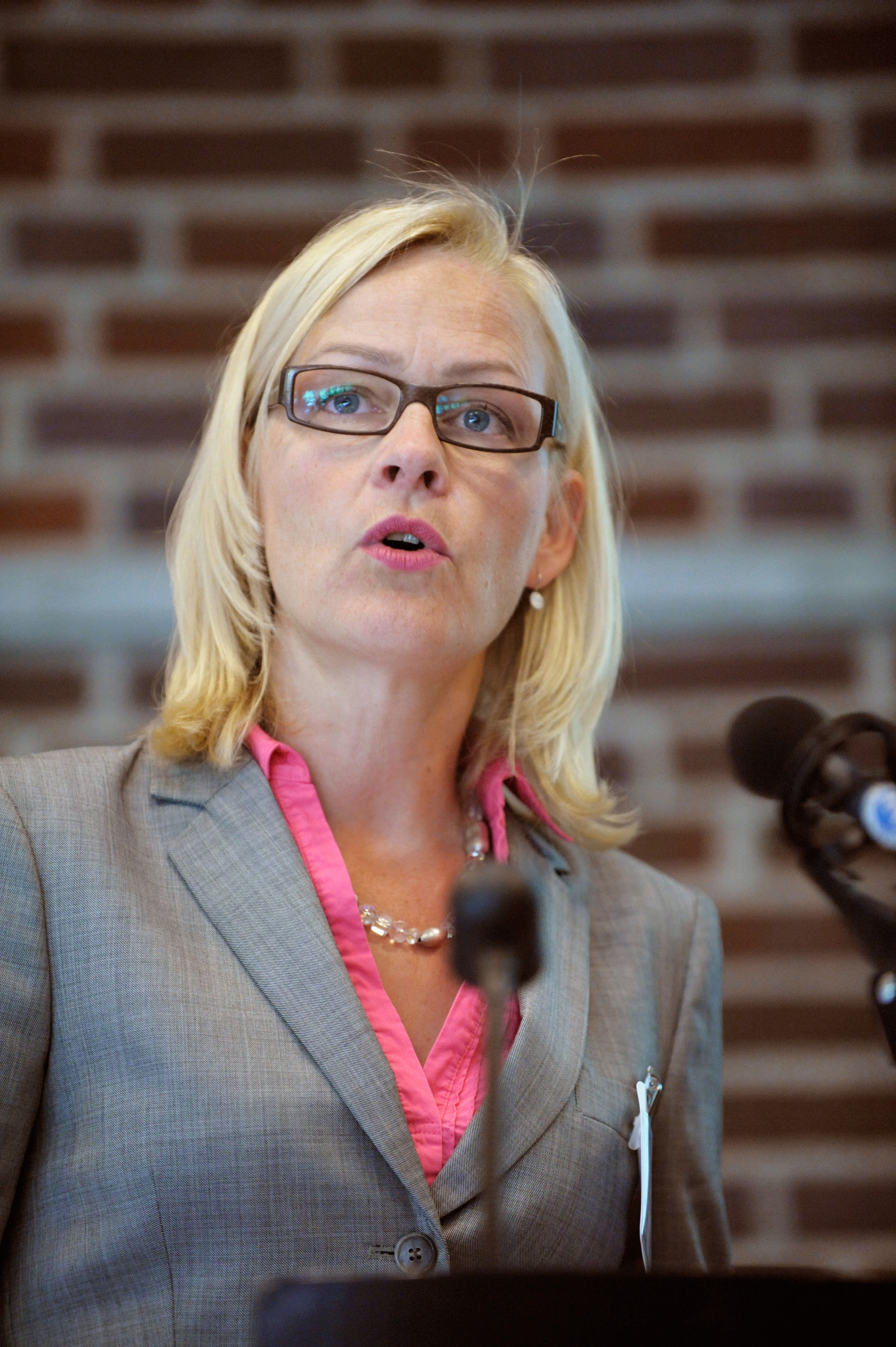 Eva Biaudet, the Minority Ombudsman of Finland and former government minister in Nyborg